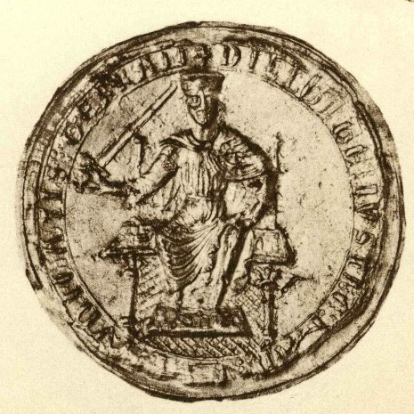 This is a scan of the historical document